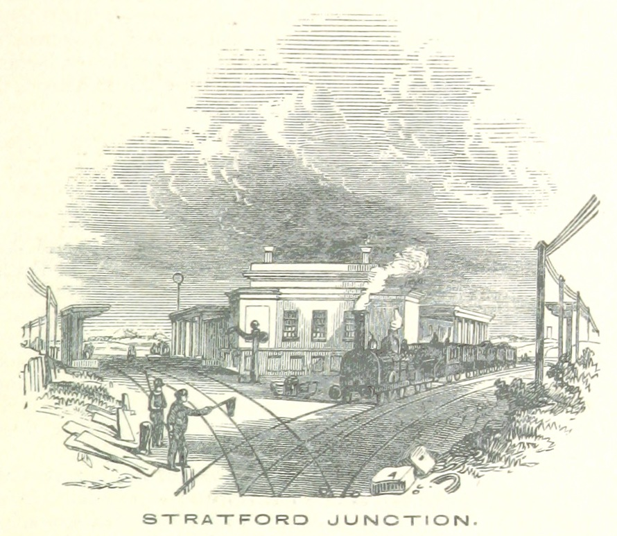 Stratford railway station, the junction between the line to Cambridge and the line to Colchester.